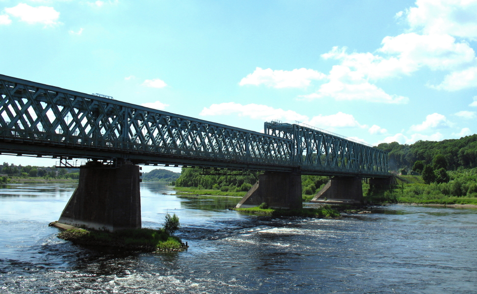 Railway bride in Kaunas, Lithuania.